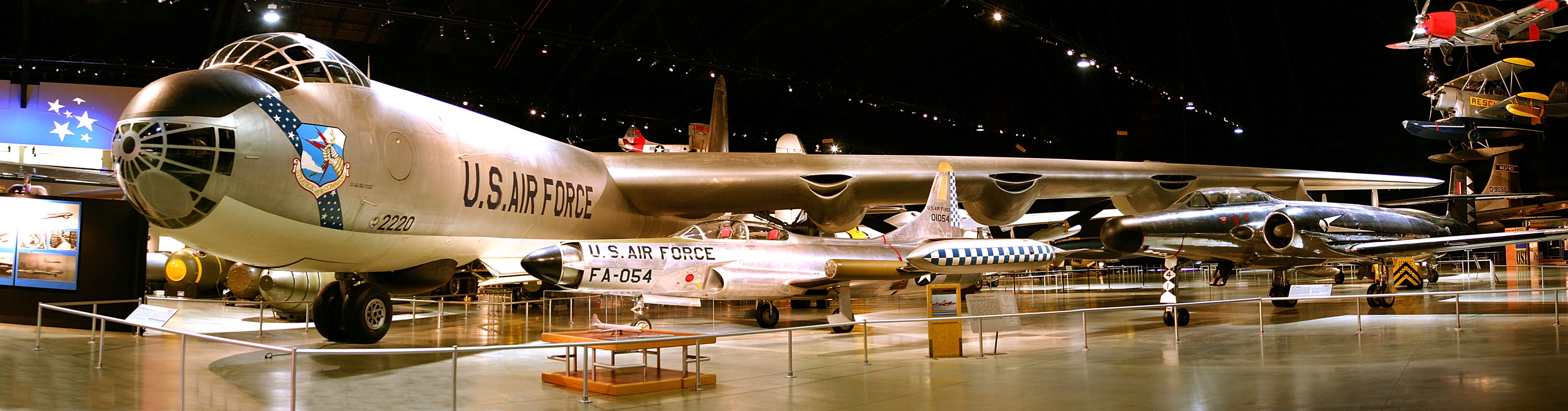 DAYTON, Ohio - B-36 on display in the Cold War Gallery at the National Museum of the U.S. Air Force. (U.S. Air Force photo by Ben Strasser)